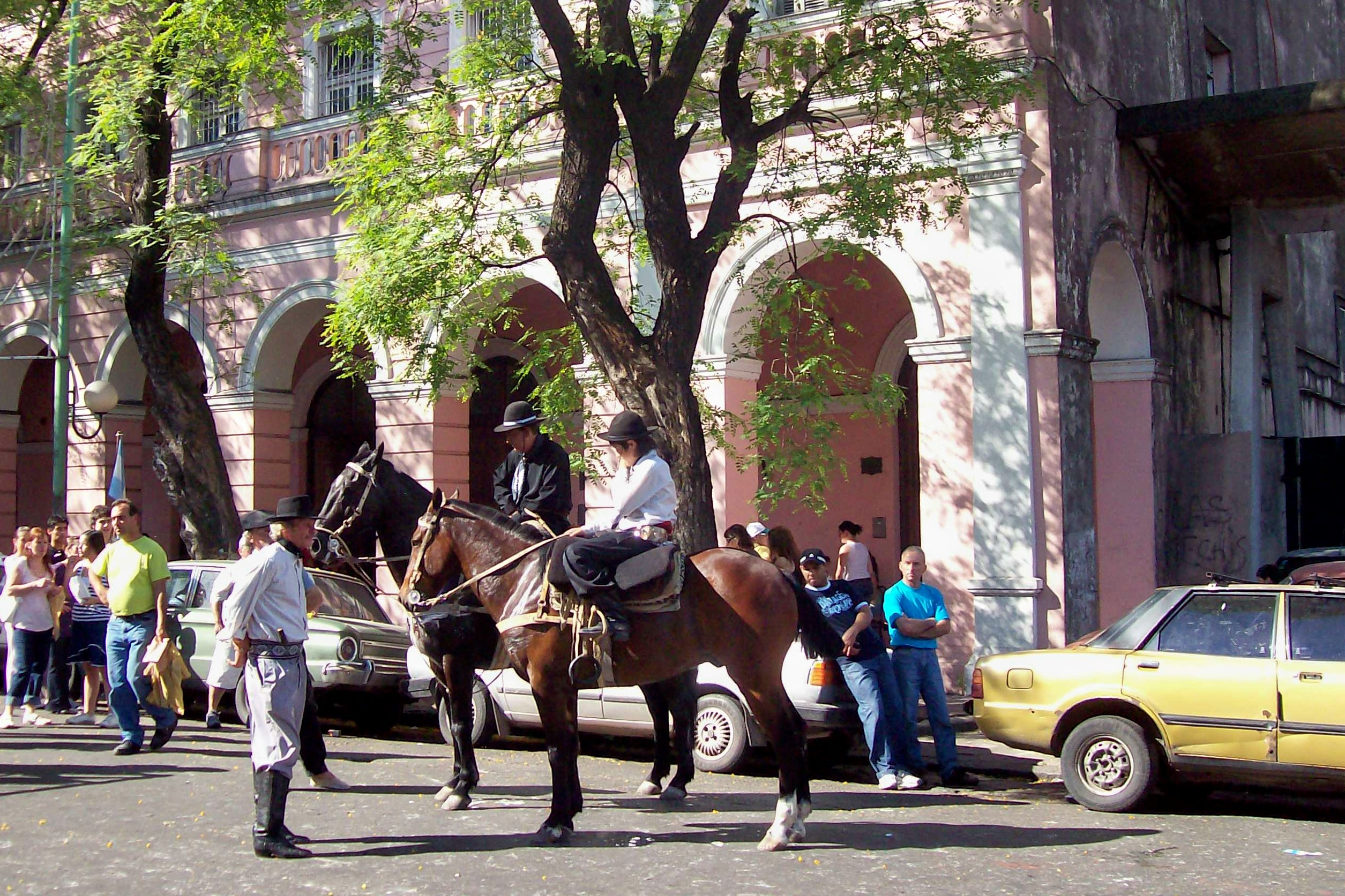 "Gauchos" at the "Feria de Mataderos" en el Ex Mercado Nacional de Hacienda, in Buenos Aires city.